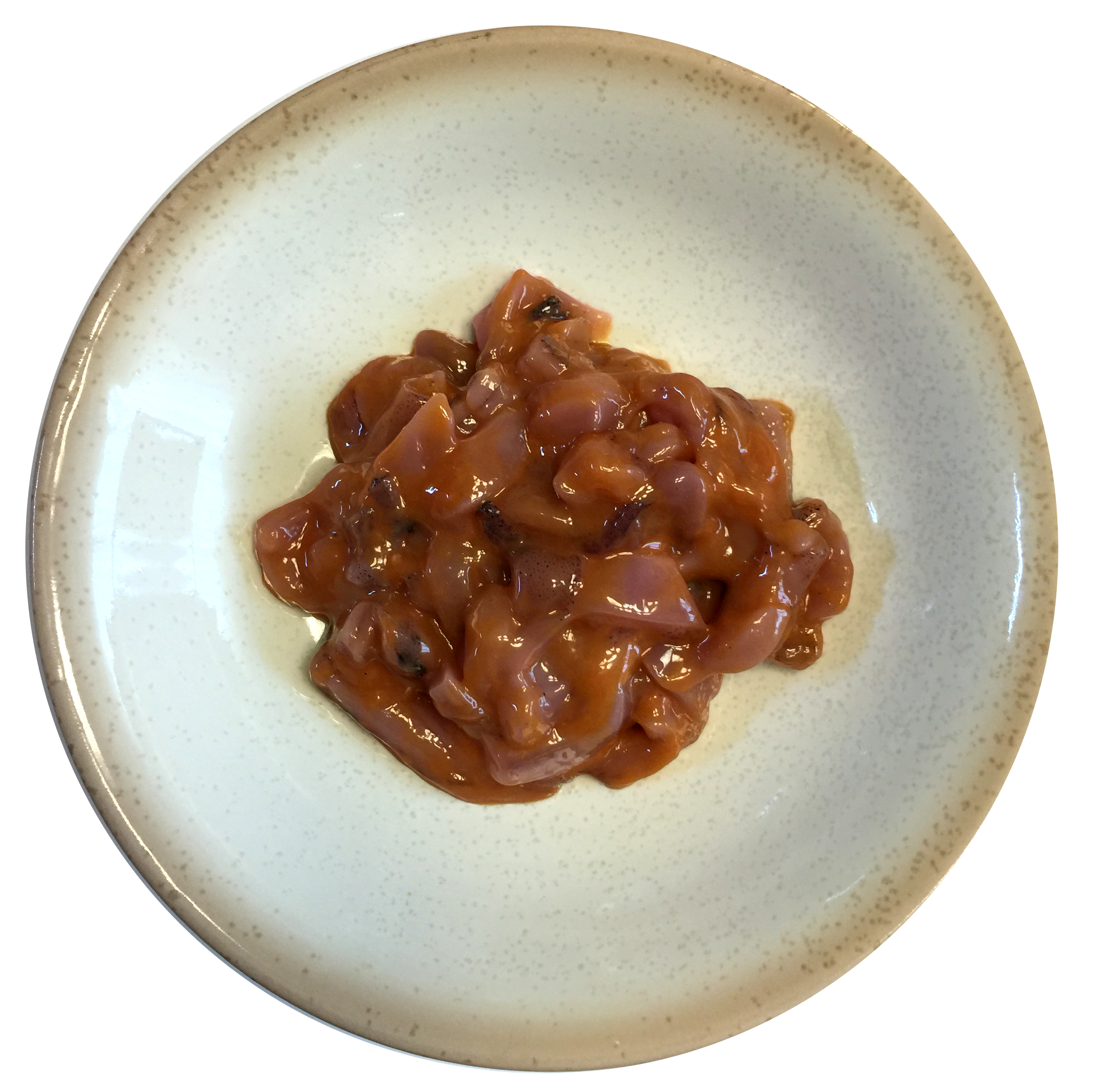 Shiokara, japanese food, fermented squid